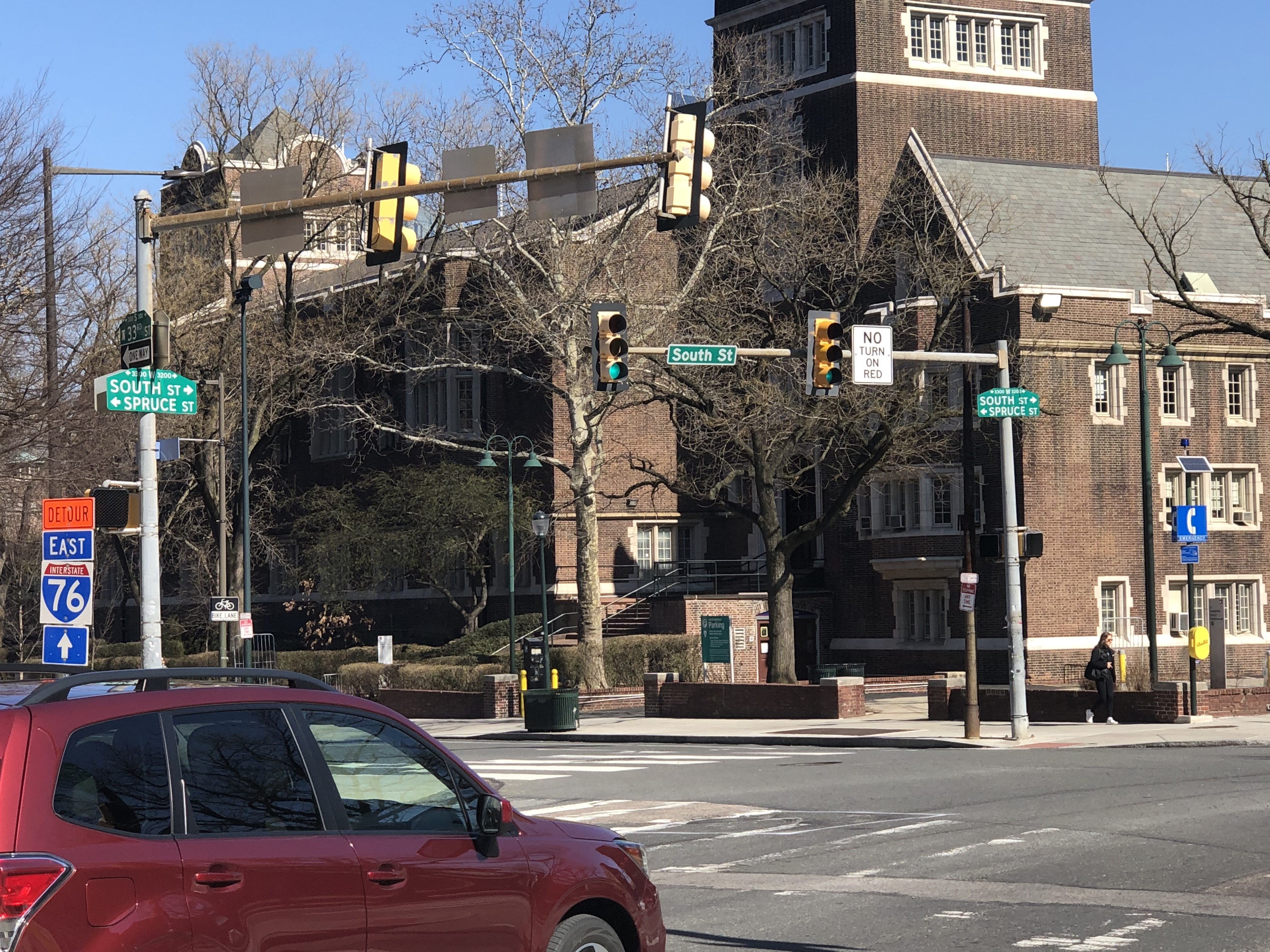 Penn medicine station